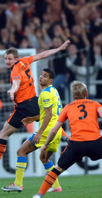 Ailton is a Brazil strikers